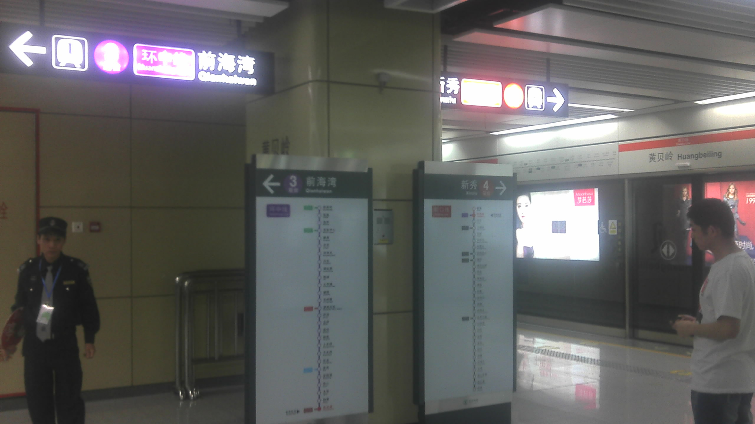 This photo was taken as Oct 14, 2011.